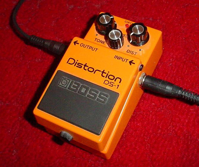 Boss DS 1 Distortion pedal